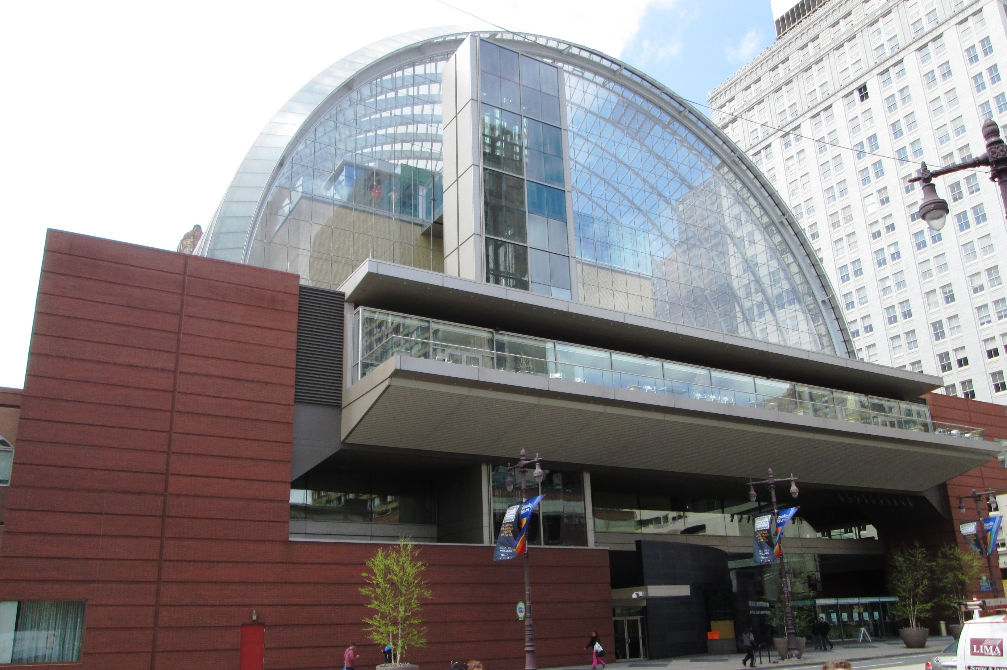 The Kimmel Center for the Performing Arts at 300 S. Broad Street at the corner of Spruce Street in the "Avenue of the Arts" area of Center City, Philadelphia, was built in 1998-2001 and was designed by Rafael Viñoly. The full-block building goes through to S. 15th Street, one block west of Broad. The facility includes two auditoriums, Verizon Hall, with 2,500 seats, and Perelman Theater with 650 seats, and has a roof garden as well. It is the home of the Philadelphia Orchestra, the Phily Pops, Phildanco, the Chamber Orchestra of Philadelphia and the Philadelphia Chamber Music Society